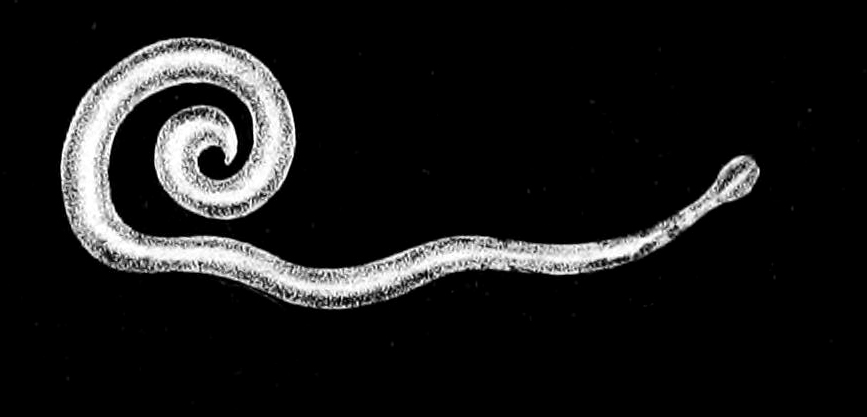 Oxyuris vermicularis = Enterobius vermicularis - male